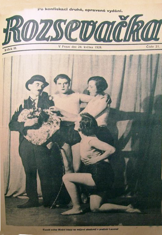 Rozsevačka, Czech magazine 1928, title page